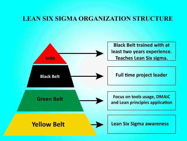 Lean Six Sigma organization structure